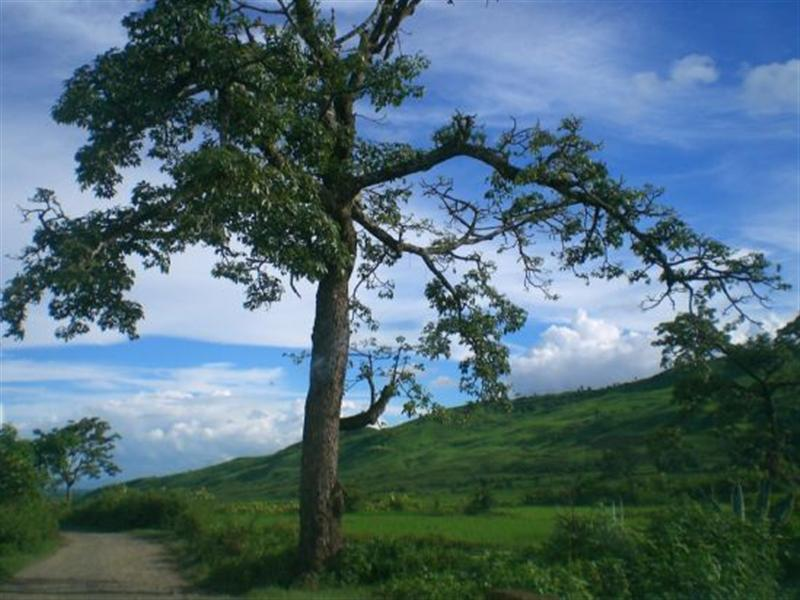 Landscape of Manipur